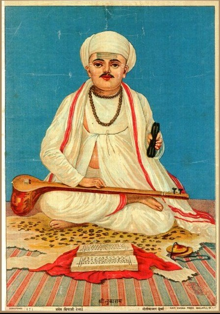 From Baroda Art Gallery